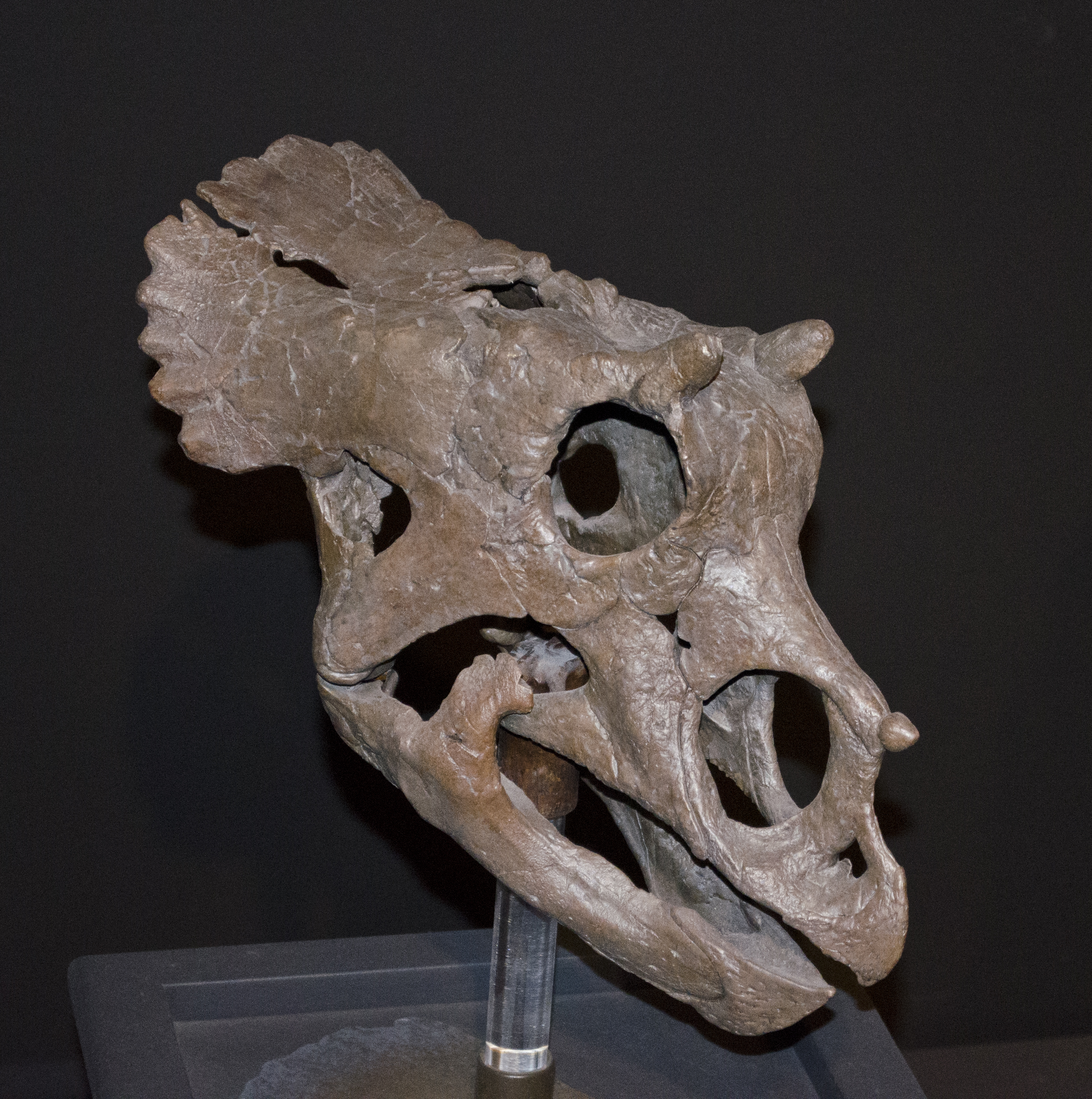 A baby Triceratops horridus skull at the Museum of the Rockies in Bozeman, Montana. Dinosaurs are classified into four growth stages: baby, juvenile, subadult, and adult. The skull is a baby, collected in Garfield County, Montana. (This is a cast.)